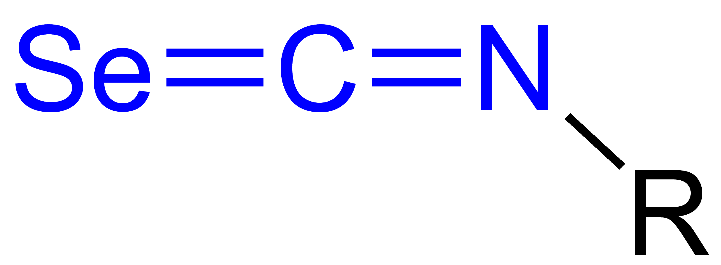 Isoselenocyanates_General_Formulae